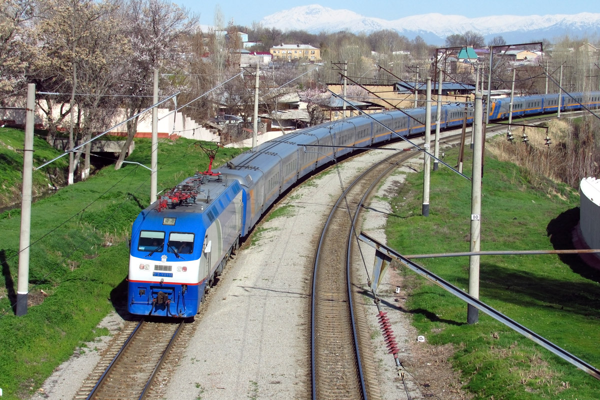 Electric locomotive O'Z-Y-0110 with Talgo Tulpar passenger train of Kazakhstan Railways on route № 1 Tashkent — Almaty.Section Salar - Chukursay, Tashkent, Uzbekistan